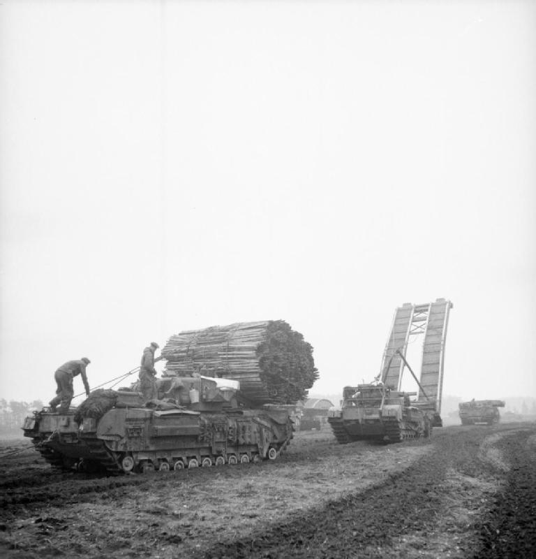 The British Army in North-west Europe 1944-45 Churchill bridgelayers and AVREs with fascines move up at the start of Operation 'Veritable', 8 February 1945.